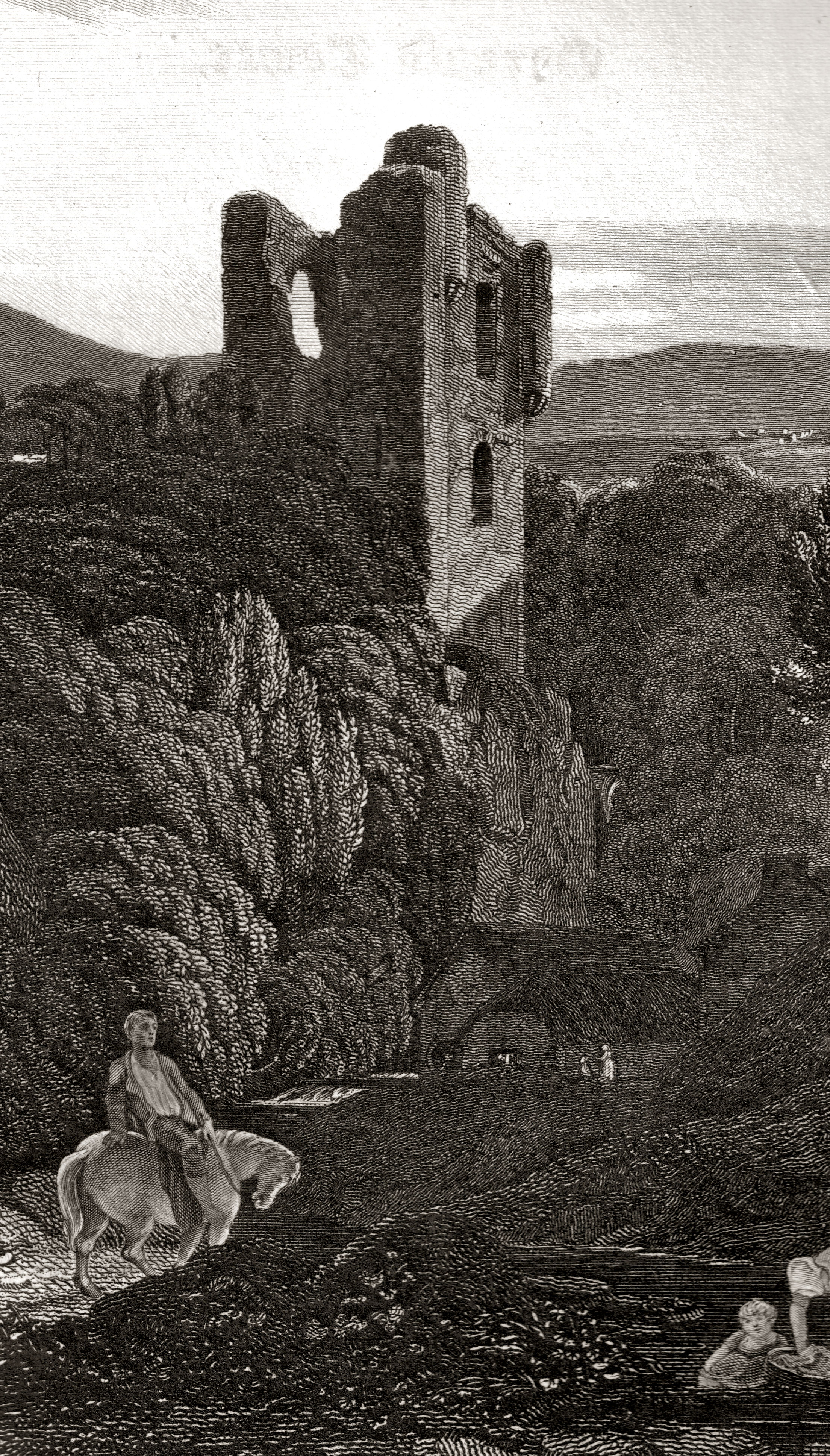 Garvald or Yester Tower, UK